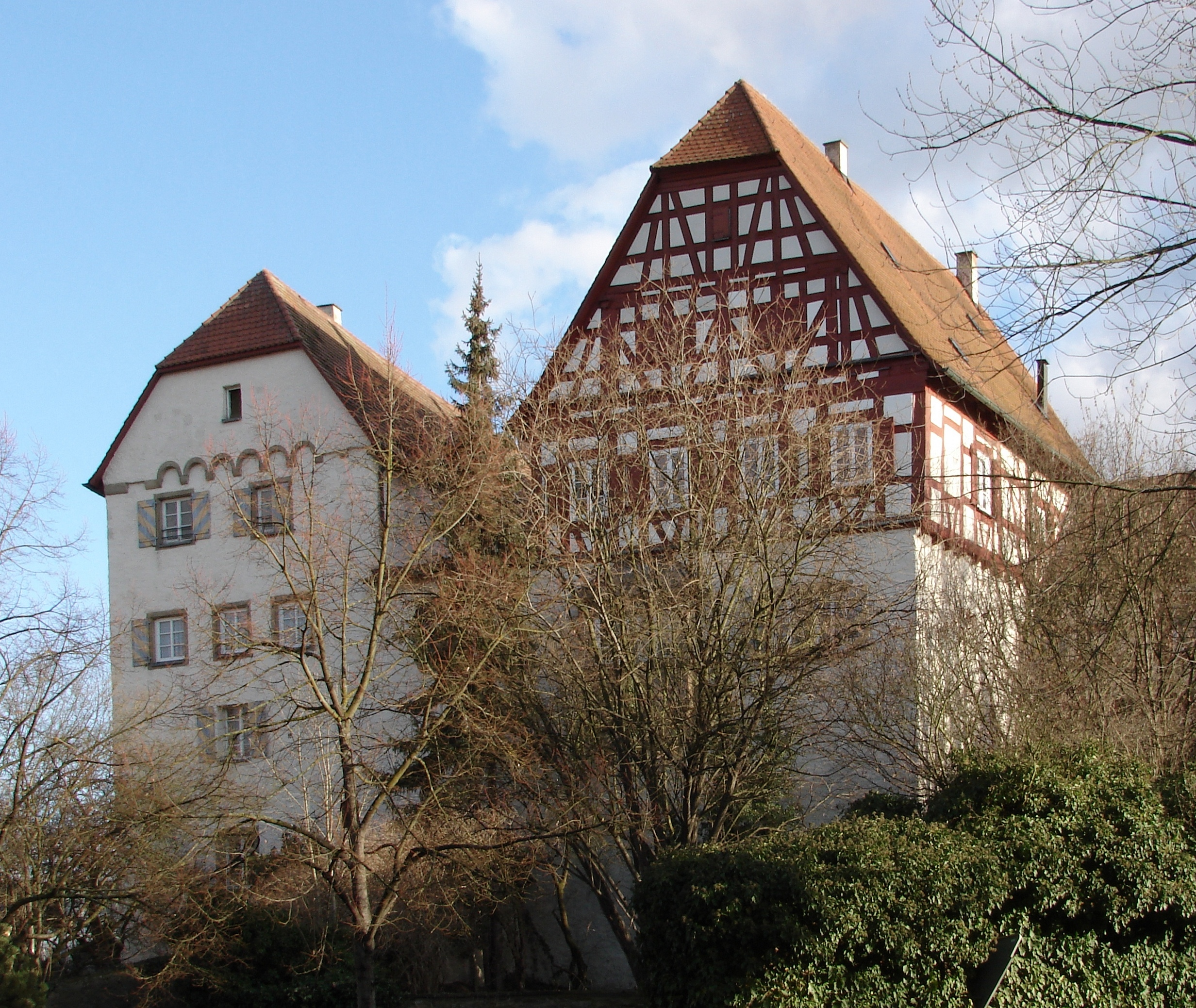 Freiberg am Neckar, the old castle of Beihingen